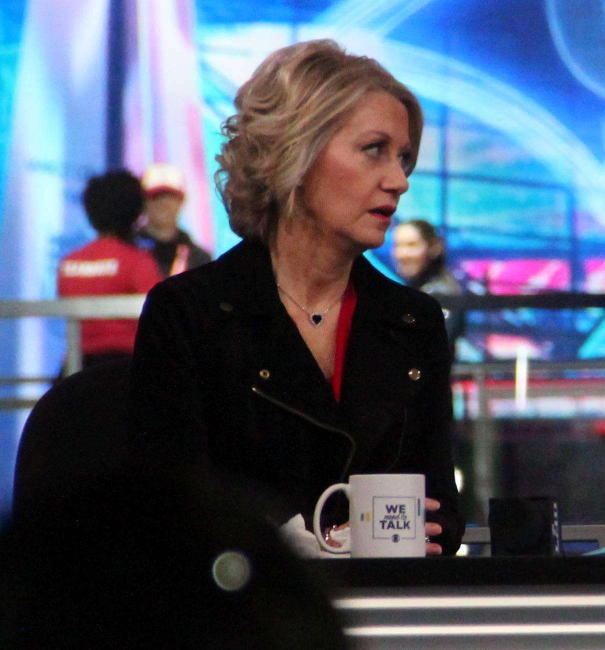 Andrea Kremer at the Super Bowl Experience at Super Bowl LIII